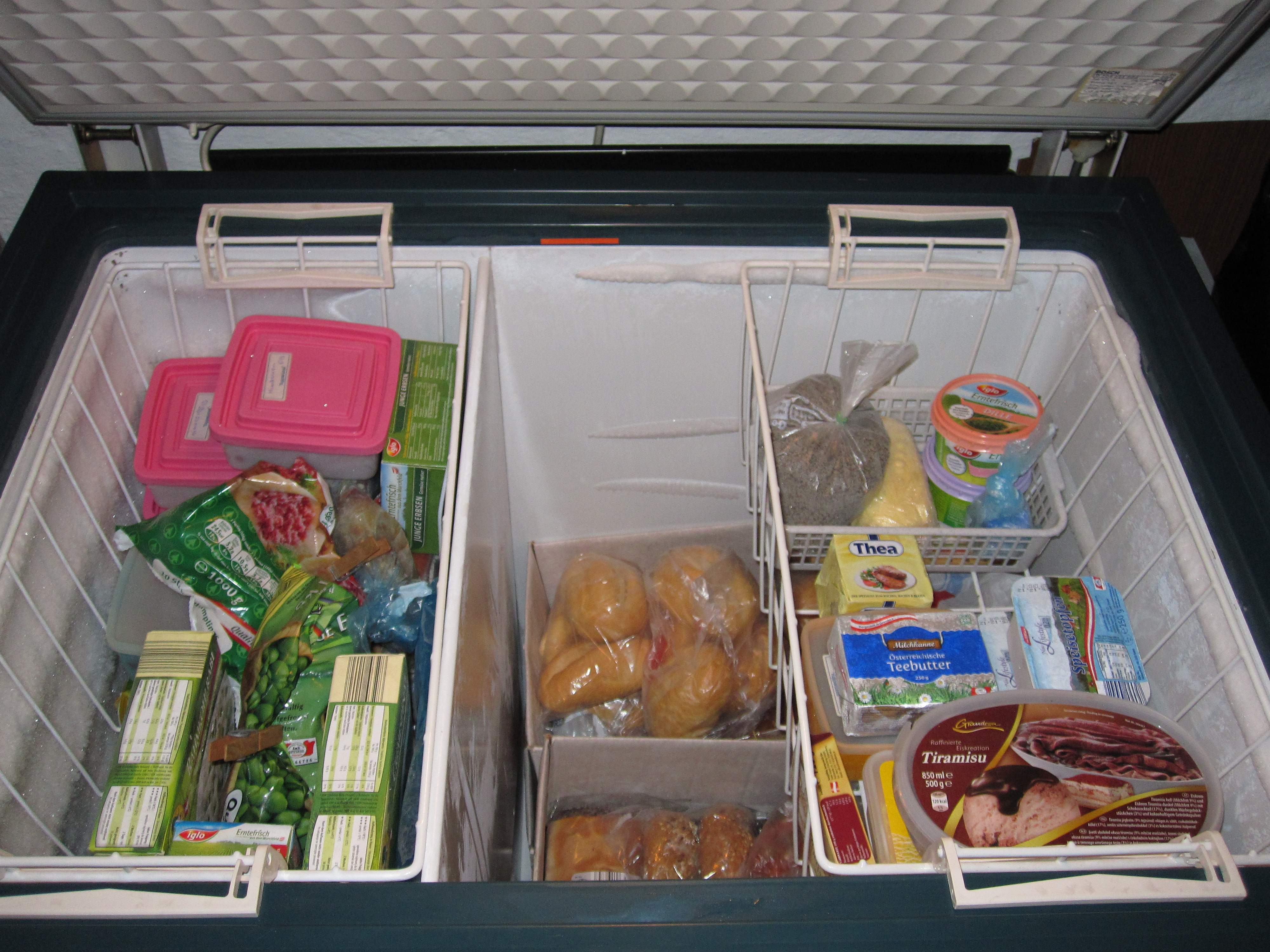 Chest freezer full groceries for crisis prevention.Emergency generator not forget.